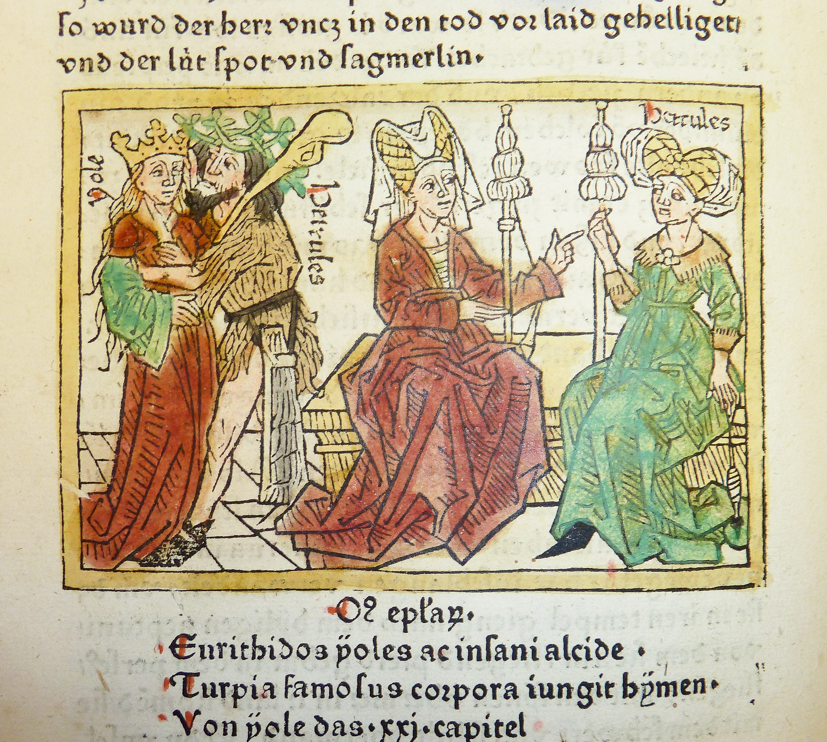 Woodcut illustration (leaf [d]8v, f. xxviij) of Hercules (dressed as both a man and a woman) and Iole, hand-colored in red, green, yellow and black, from an incunable German translation by Heinrich Steinhöwel of Giovanni Boccaccio's De mulieribus claris, printed by Johannes Zainer at Ulm ca. 1474 (cf. ISTC ib00720000). One of 76 woodcut illustrations (1 on leaf [e]8v dated 1473), each 80 x 110 mm., depicting scenes from the life of the women chronicled (for a full list of subjects, cf. W.L. Schreiber, Handbuch der Holz- und Metallschnitte des XV. Jahrhunderts (Nendeln: Kraus Reprints, 1969), no. 3506). "Pour la première moitie le nom se trouve inscrit à côte de la tête de chaque femme, pour le reste il es ajouté entre les deux réglettes. Il n'y en a que trois, qui n'ont qu'un seul trait carré."--Schreiber. Established form: Zainer, Johannes, ‡d d. 1541?. Established form: Iole (Greek mythology) Penn Libraries call number: Inc B-720 All images from this book Penn Libraries catalog record